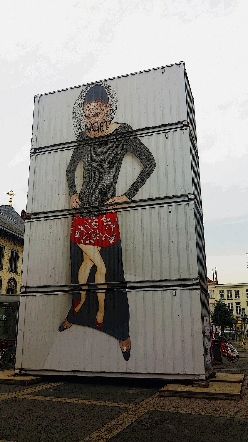 Public Fashion Art Project in Antwerp